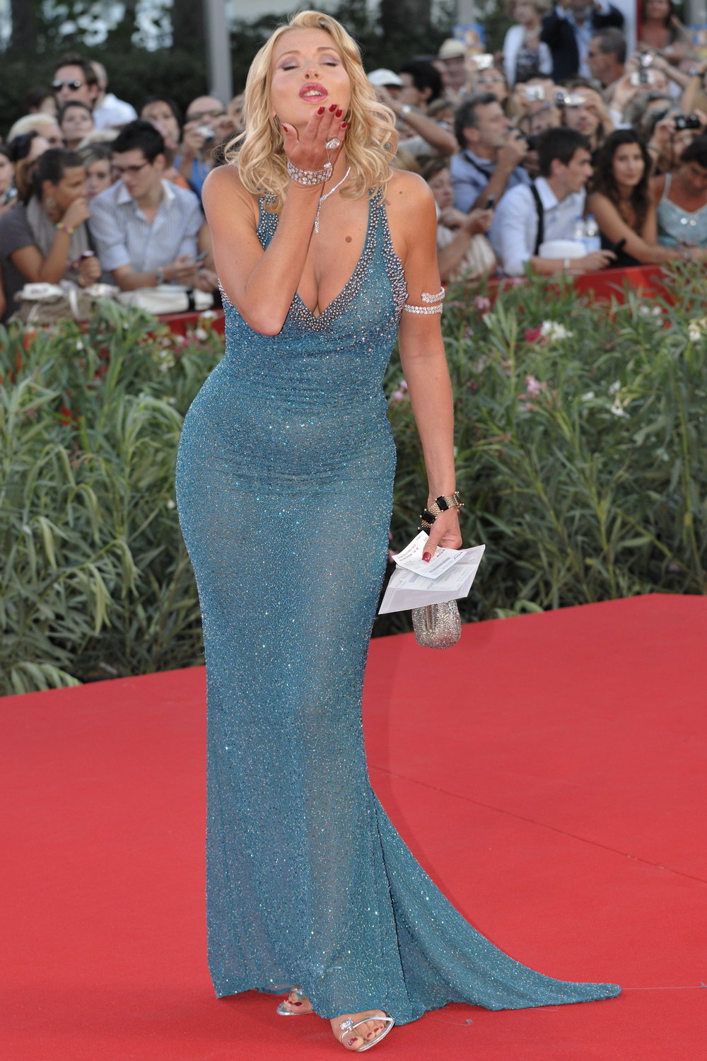 Valeria Marini at 2009 Venice Film Festival